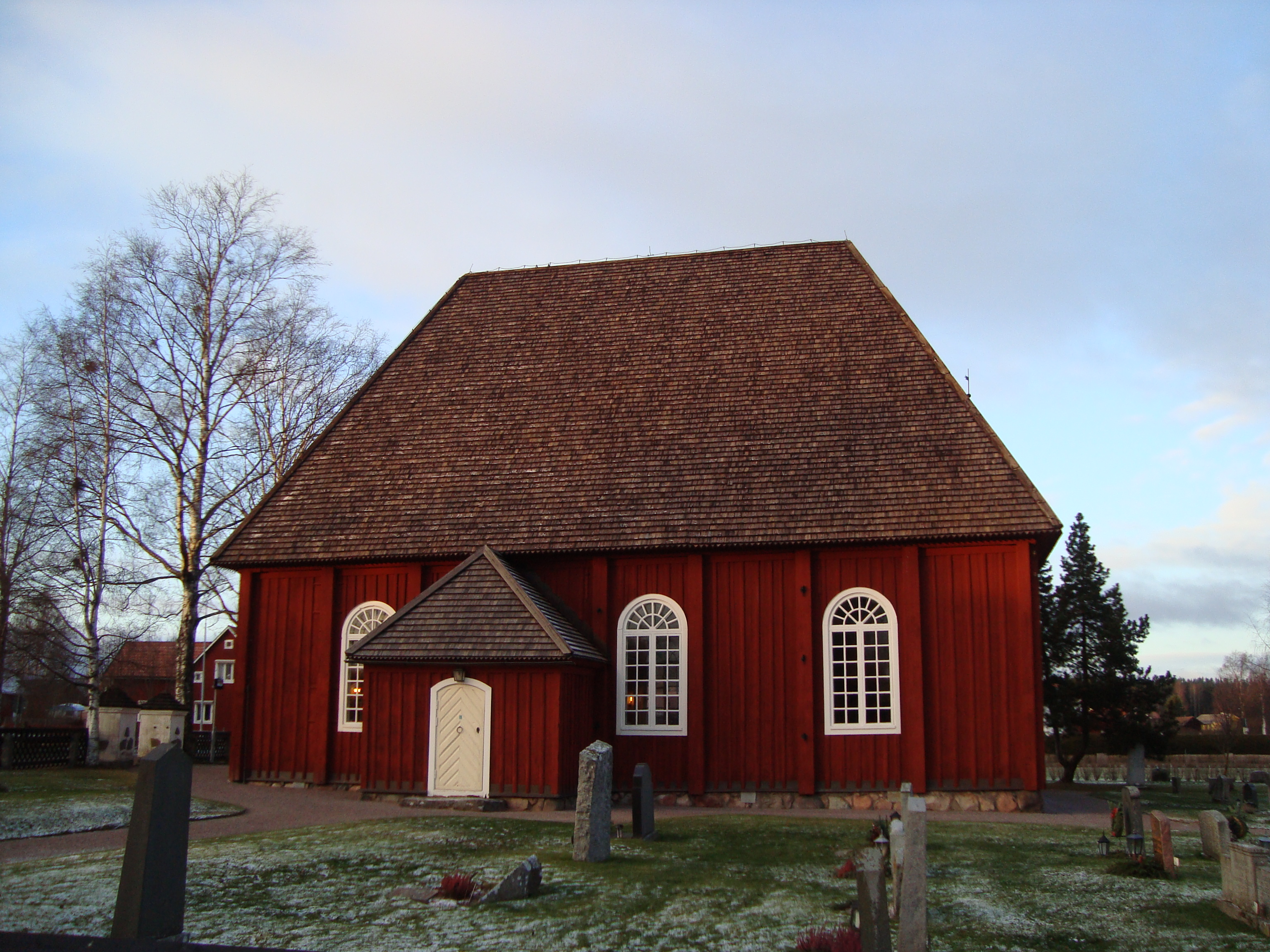 Chapel of Amsberg, Borlänge municipality, Sweden